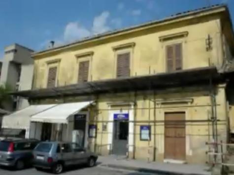 The station of Piazza Armerina